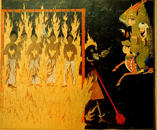 A Persian depiction of Muhammad visiting Hell during the Isra and Mi'raj (Night Journey) and seeing a demon punishing "shameless women" who had exposed their hair to strangers. For this crime of inciting lust in men, the women are strung up by their hair and burned for eternity. Muhammad is depicted riding Buraq and being accompanied by Gabriel.